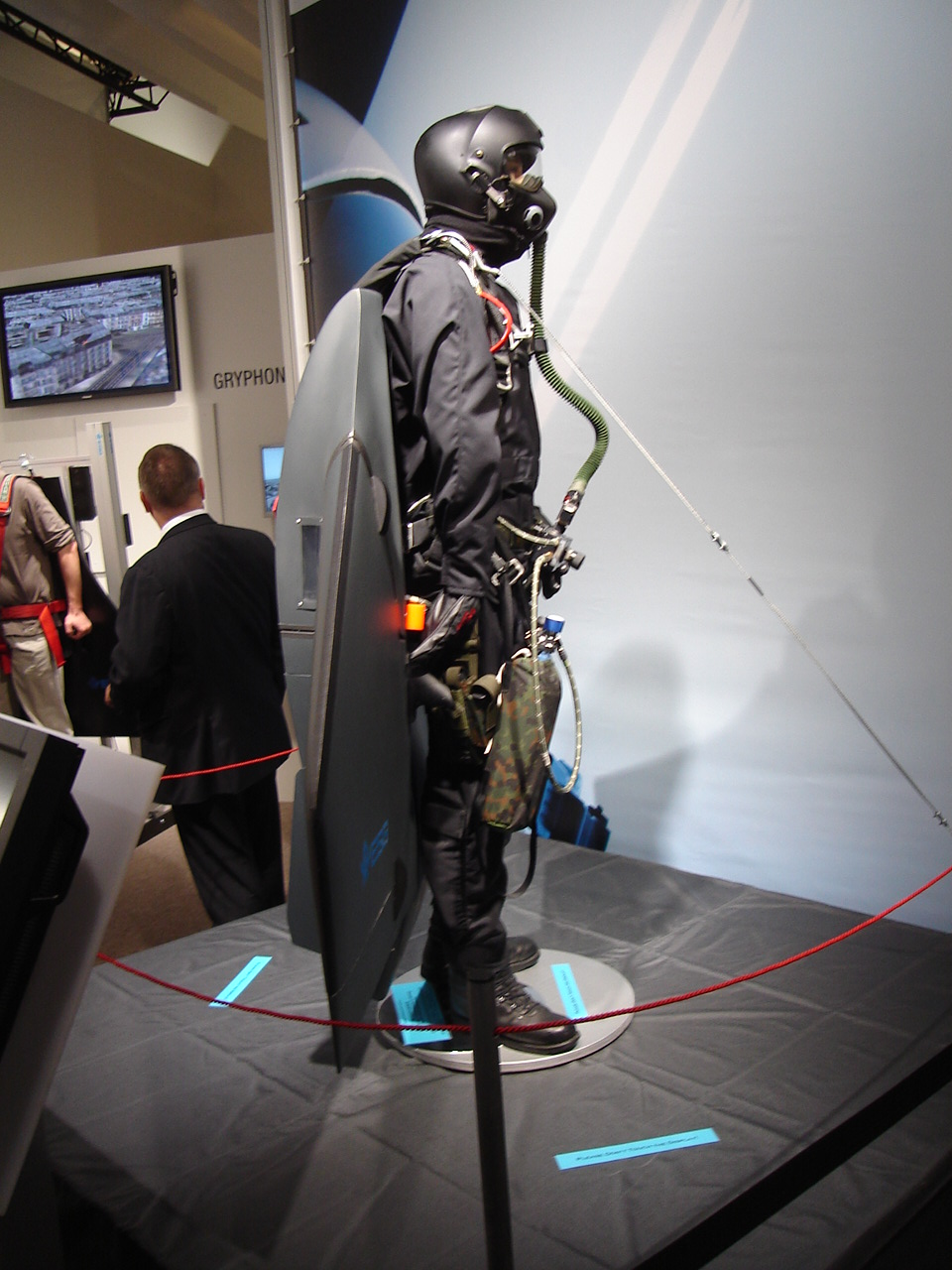 The Gryphon wingsuit by ESG at the Paris Air Show 2007.